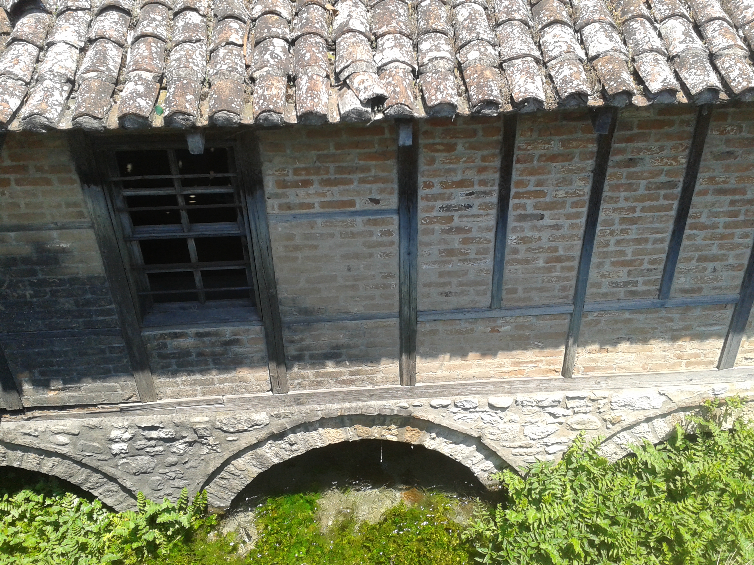 Zonke Watermill in Drama